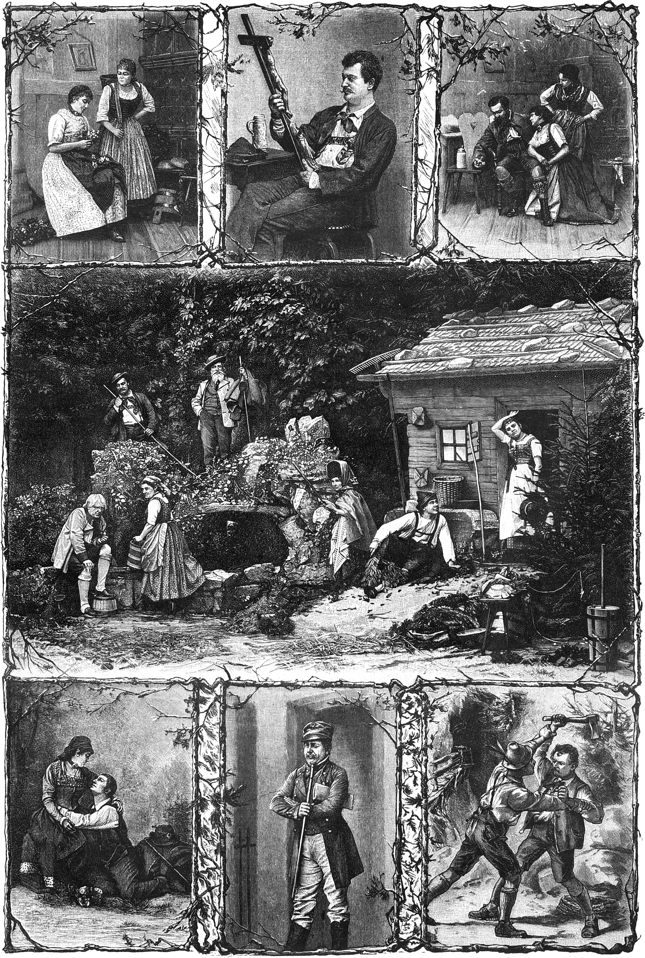 caption: "Scenen aus dem Volksstückchen der „Münchener“.Nach Photographien von Friedr. Mueller in München und J. van Ronzelen in Berlin."